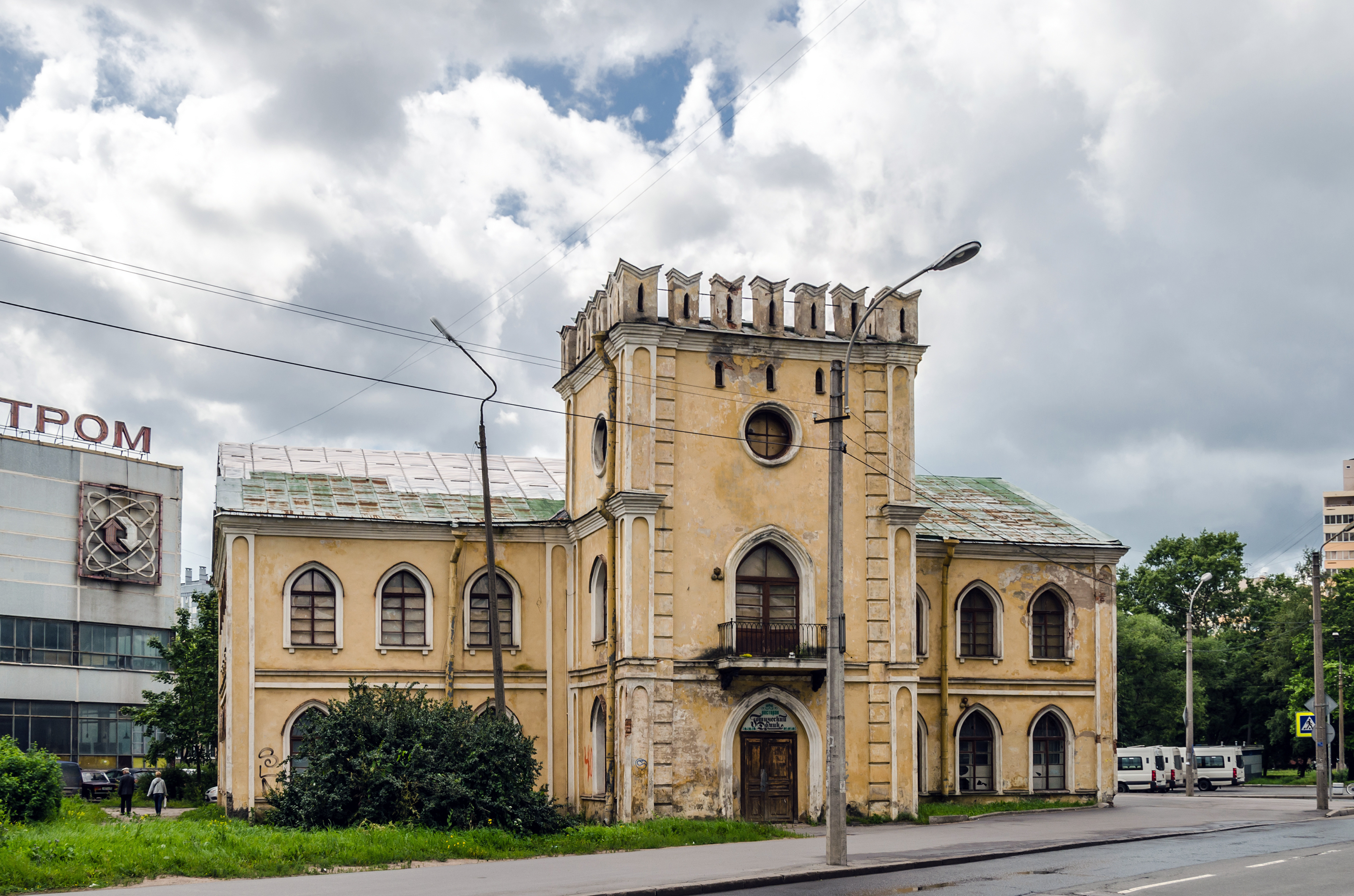 Gothic House ("Novo-Znamenka") in Saint Petersburg